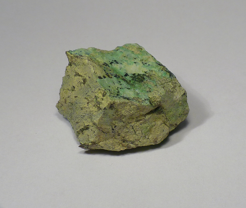 Népouite Locality: Callenberg North open cut (No. 2), Callenberg, Glauchau, Saxony, Germany Green massive nepouite. Specimen size 2.5 x 2 cm